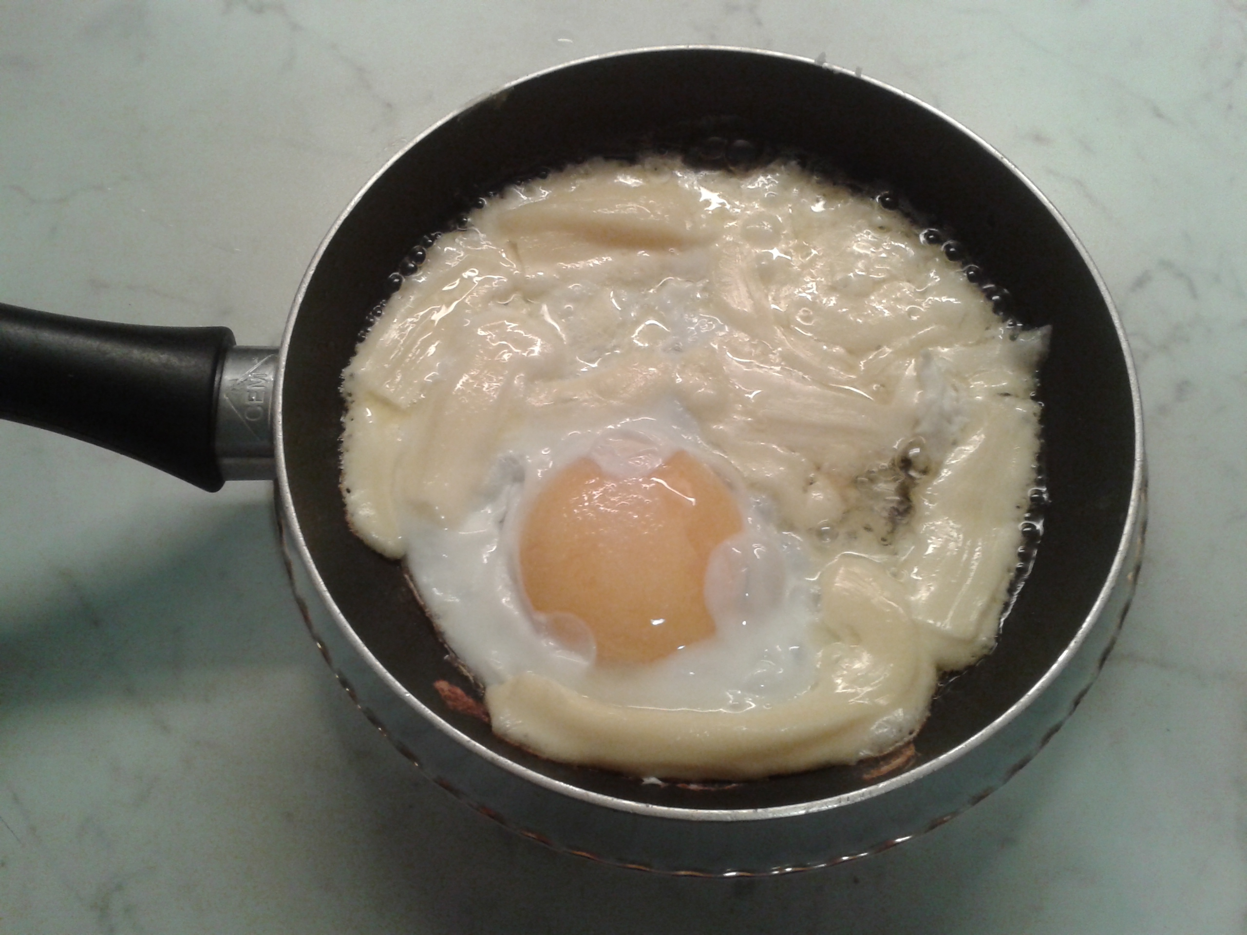 "Tel peynirli yumurta": Fried egg with cheese "tel" or "telli", also used to make kuymak/muhlama, from the Black Sea Region of Turkey.